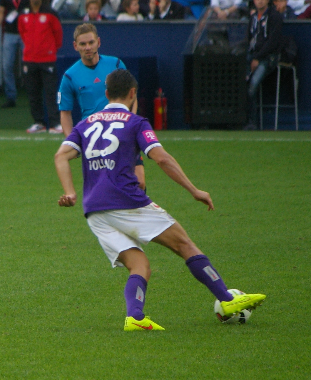 Austrian Bundesliga league match